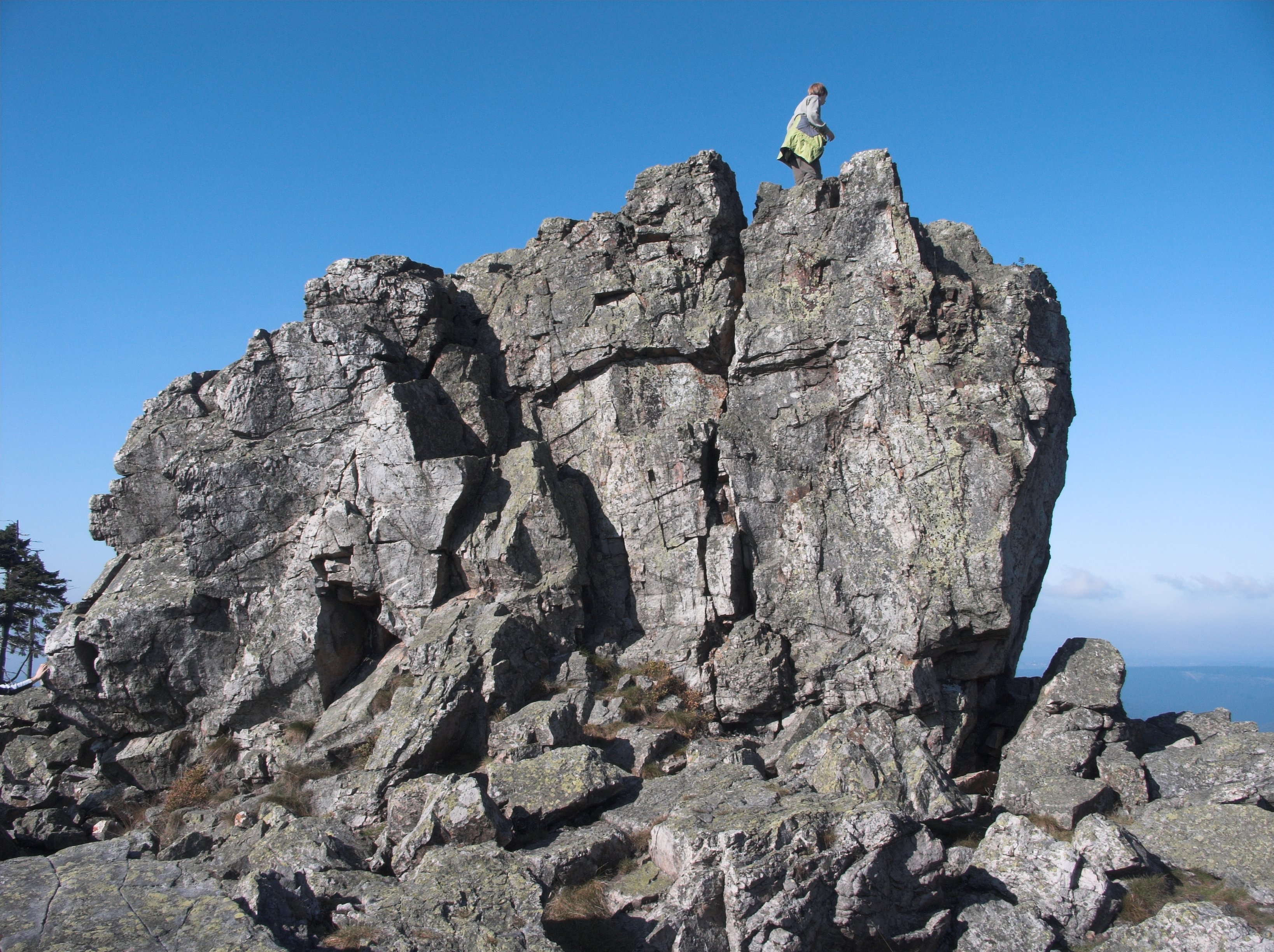 The Hanskühnenburg Crag from the south, Harz mountains, Germany